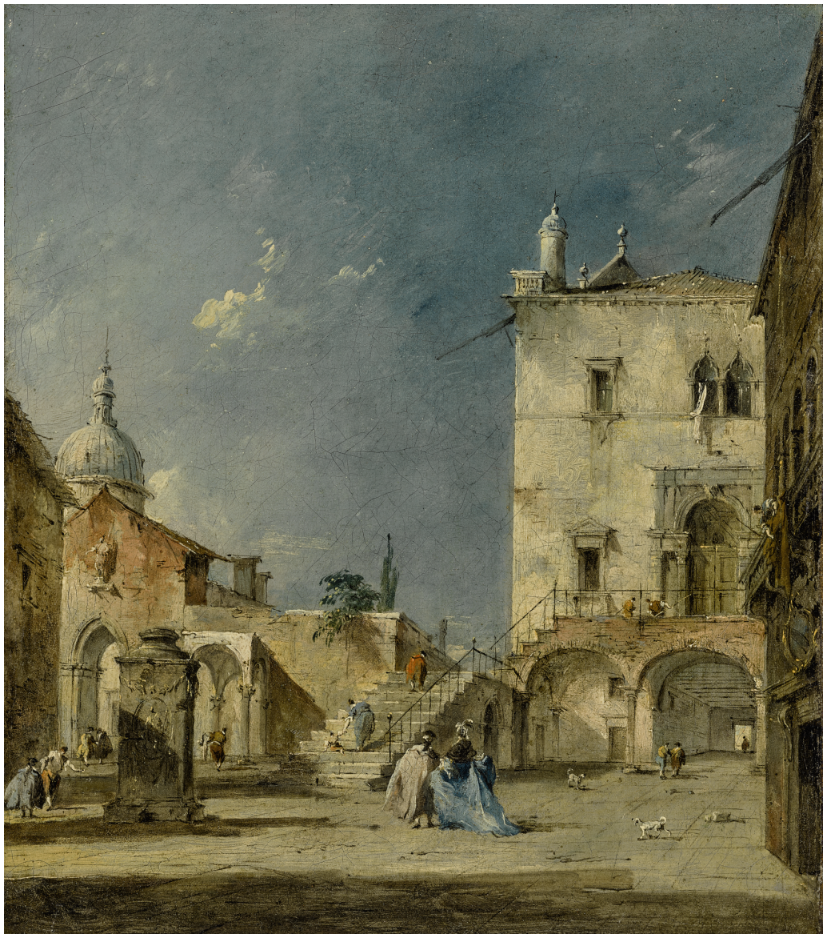 FRANCESCO GUARDI Venice 1712 - 1793 CAPRICCIO VIEW OF A VENETIAN CAMPO oil on canvas 12⅜ by 10⅝ in.; 31.4 by 27 cm.